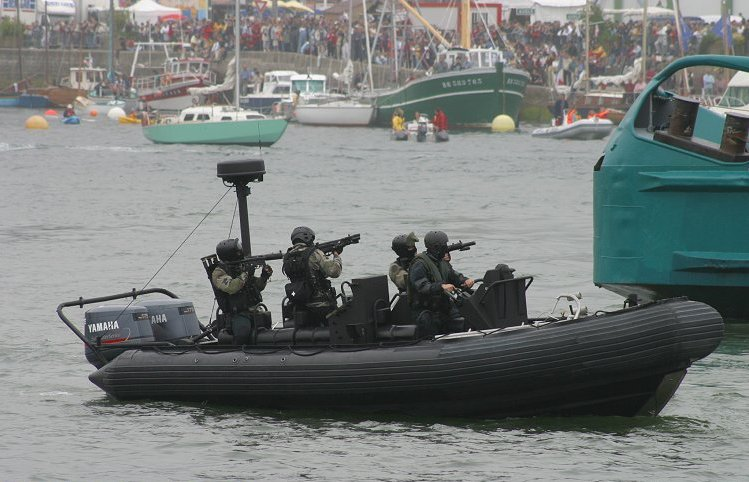 Jaubert commandos demonstrating a mock seaborne assault on the support vessel Alcyon during the Brest sea show of 2004 (July 2004).